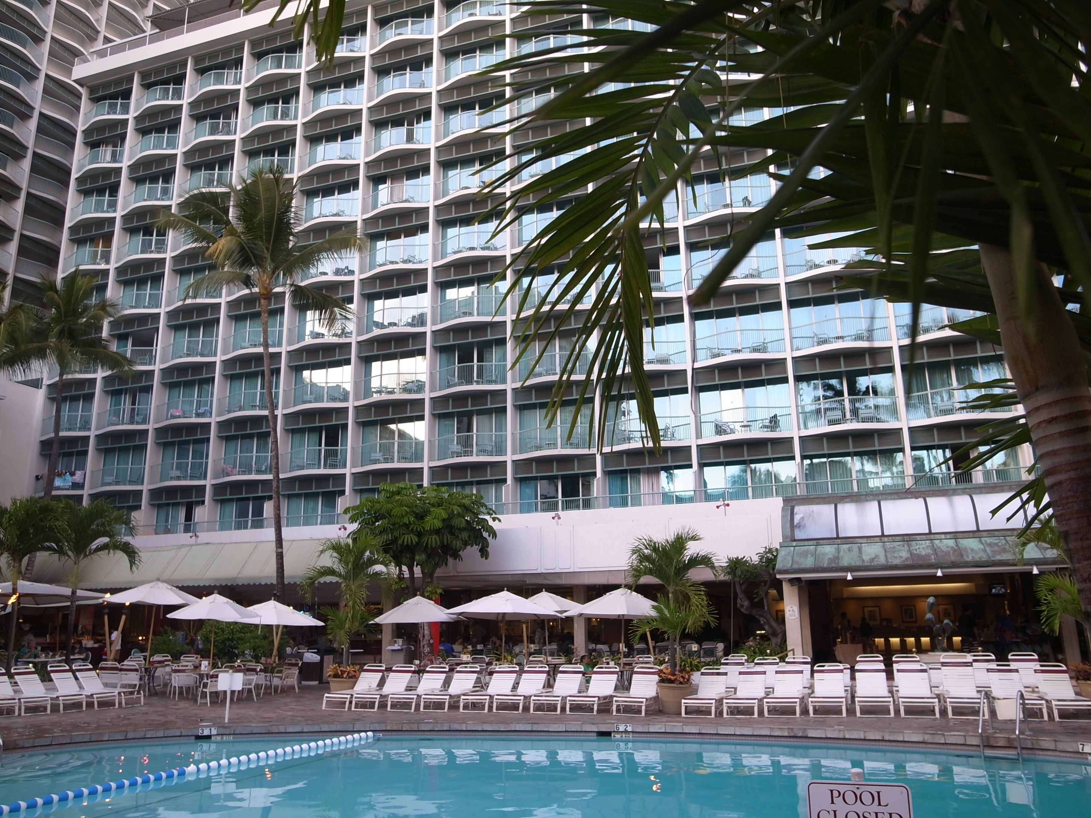 Sheraton princess kaiulani